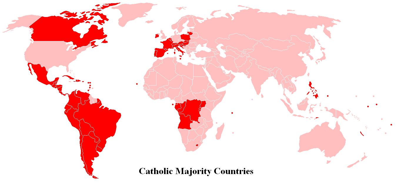 Map is showing countries with absolute and relative Catholic majority - without any explanation for the different colours, however